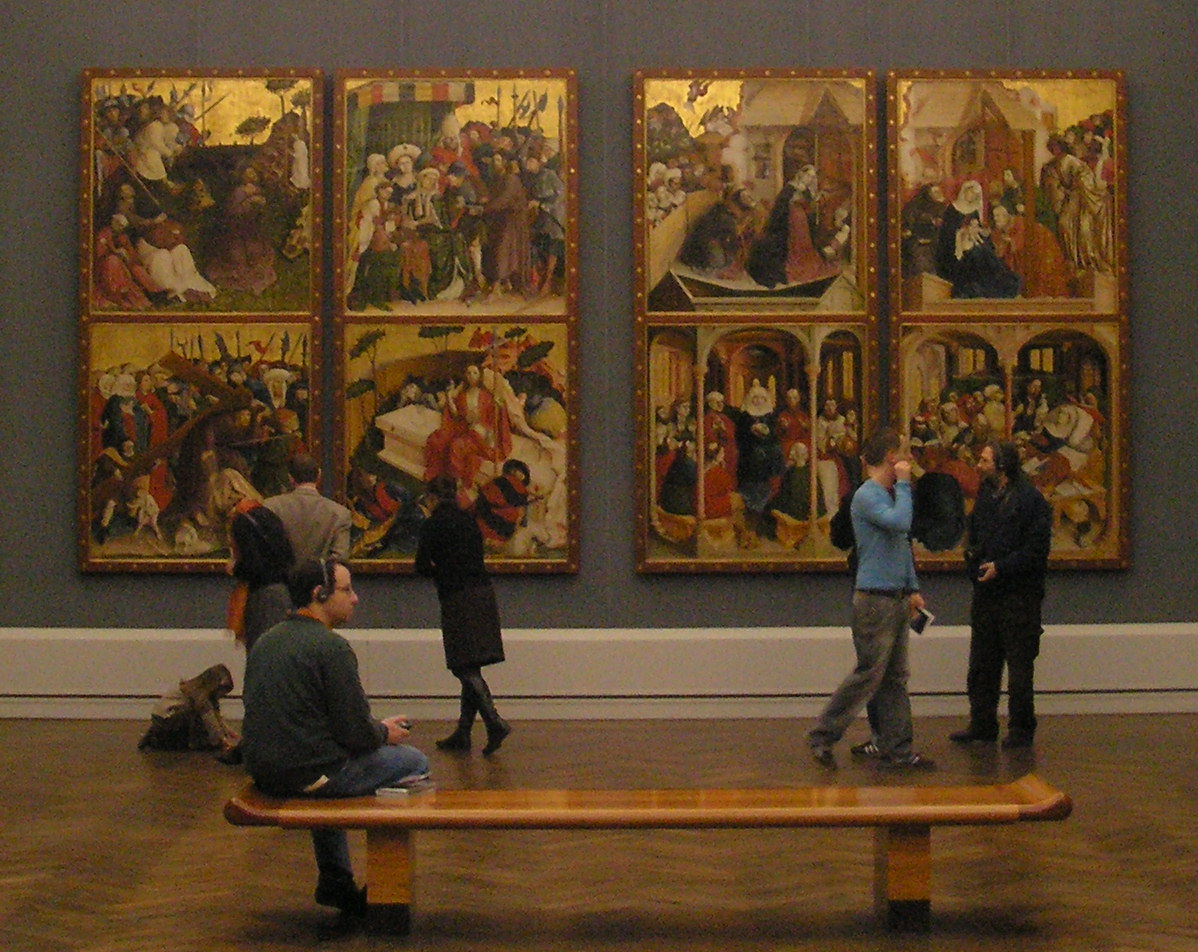 Description: One of the exhibiting rooms, showing medieval sacred art in the Gemäldegalerie in Berlin; room I Source: self-made, I release it into the public domain.